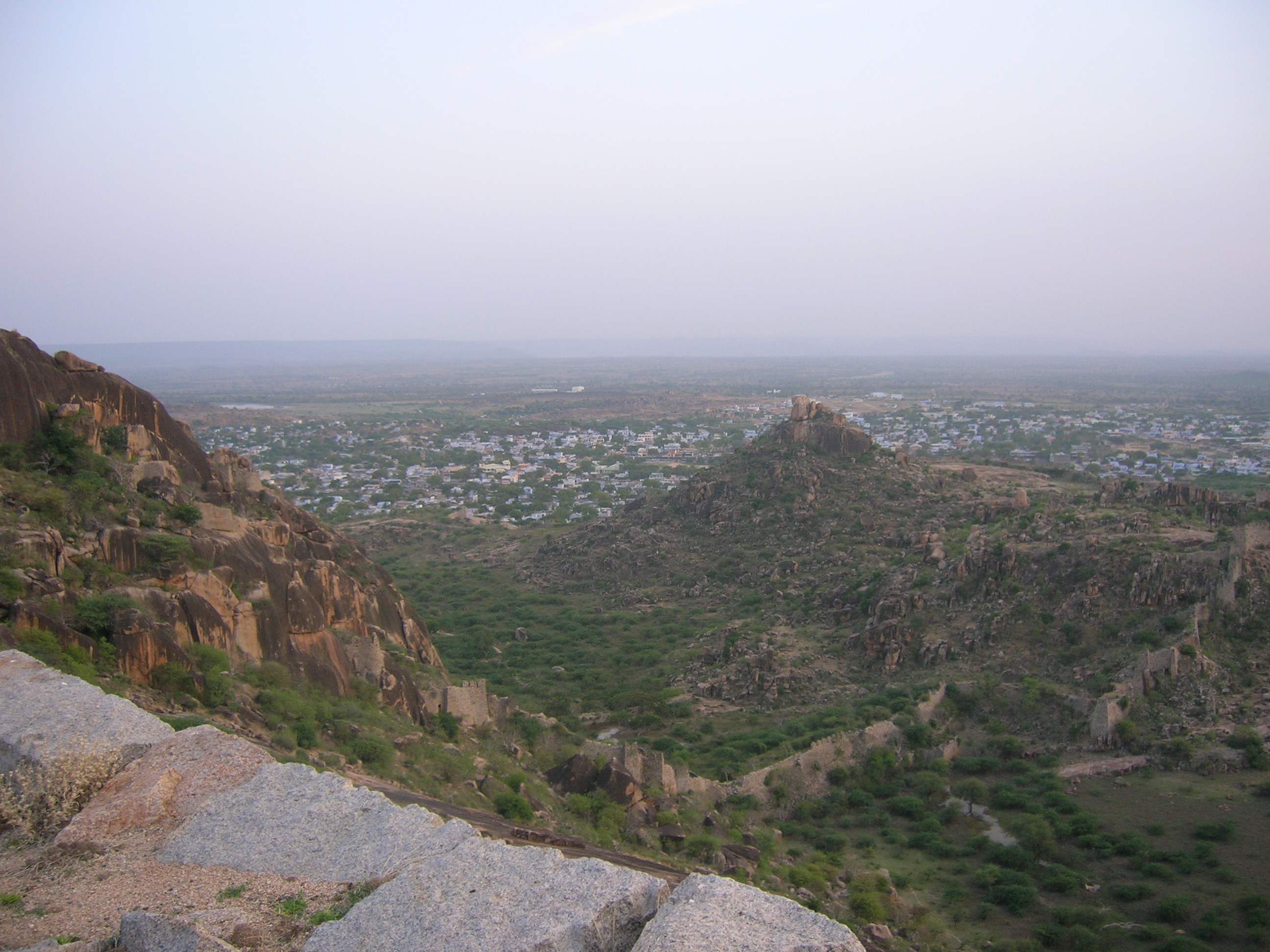 Devarakonda